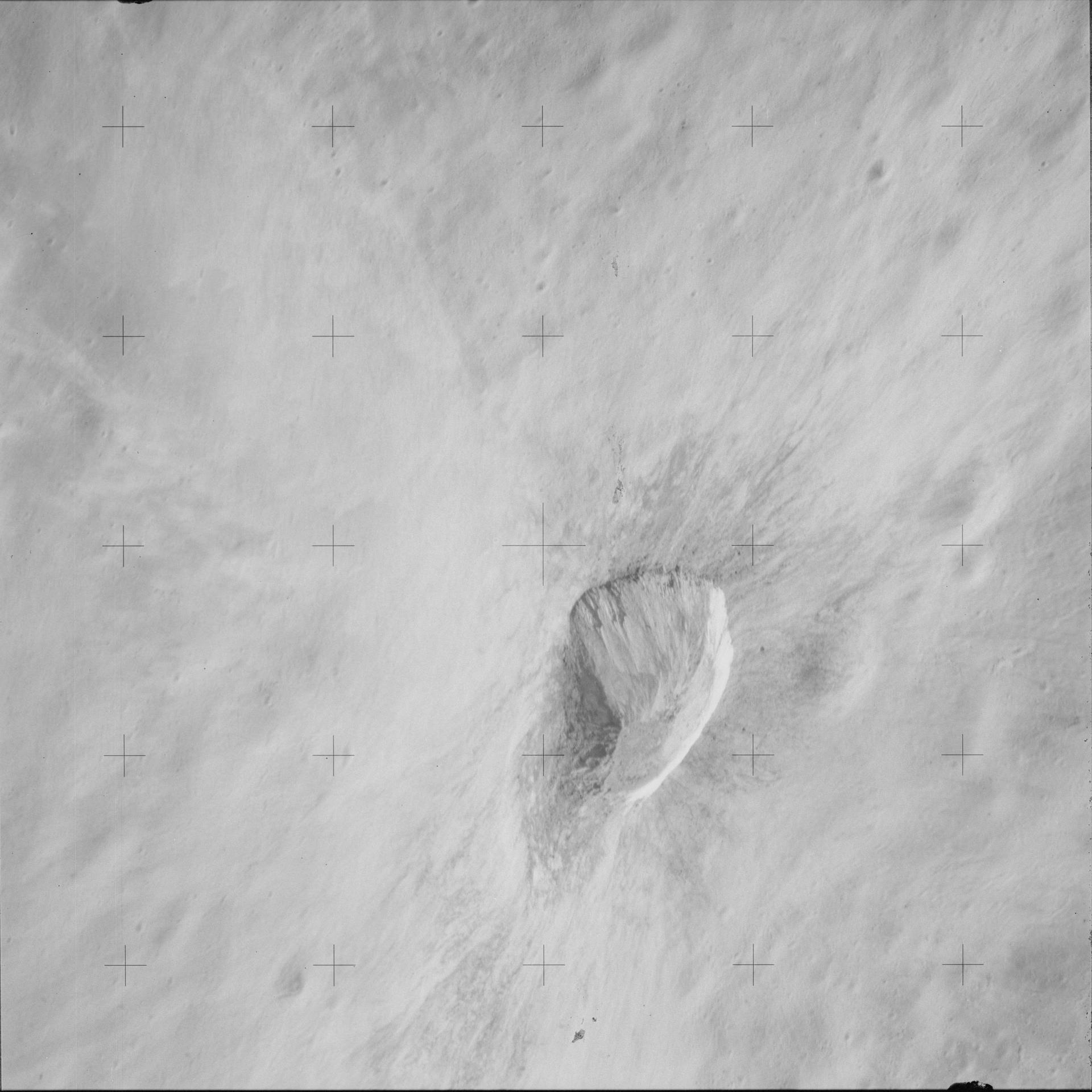 Rim of Gibbs with recent small crater, on the moon. This is figure 3-34 from the Apollo 15 Preliminary Science Report (NASA SP-289), which has the following caption: Sharp raised-rim crater with rays. Rays of dark ejecta streak the bright halo surrounding this sharp crater on the crest of the northeast rim of Gibbs Crater. The rim of Gibbs, which trends from upper right to lower left through the center reseau cross and through the sharp crater, is not prominent on this telephotograph taken with the 500-mm lens. This feature was selected during premission planning for photography if the opportunity and film were available. The Apollo 15 astronauts photographed many such contingency targets during the final revolutions in lunar orbit.